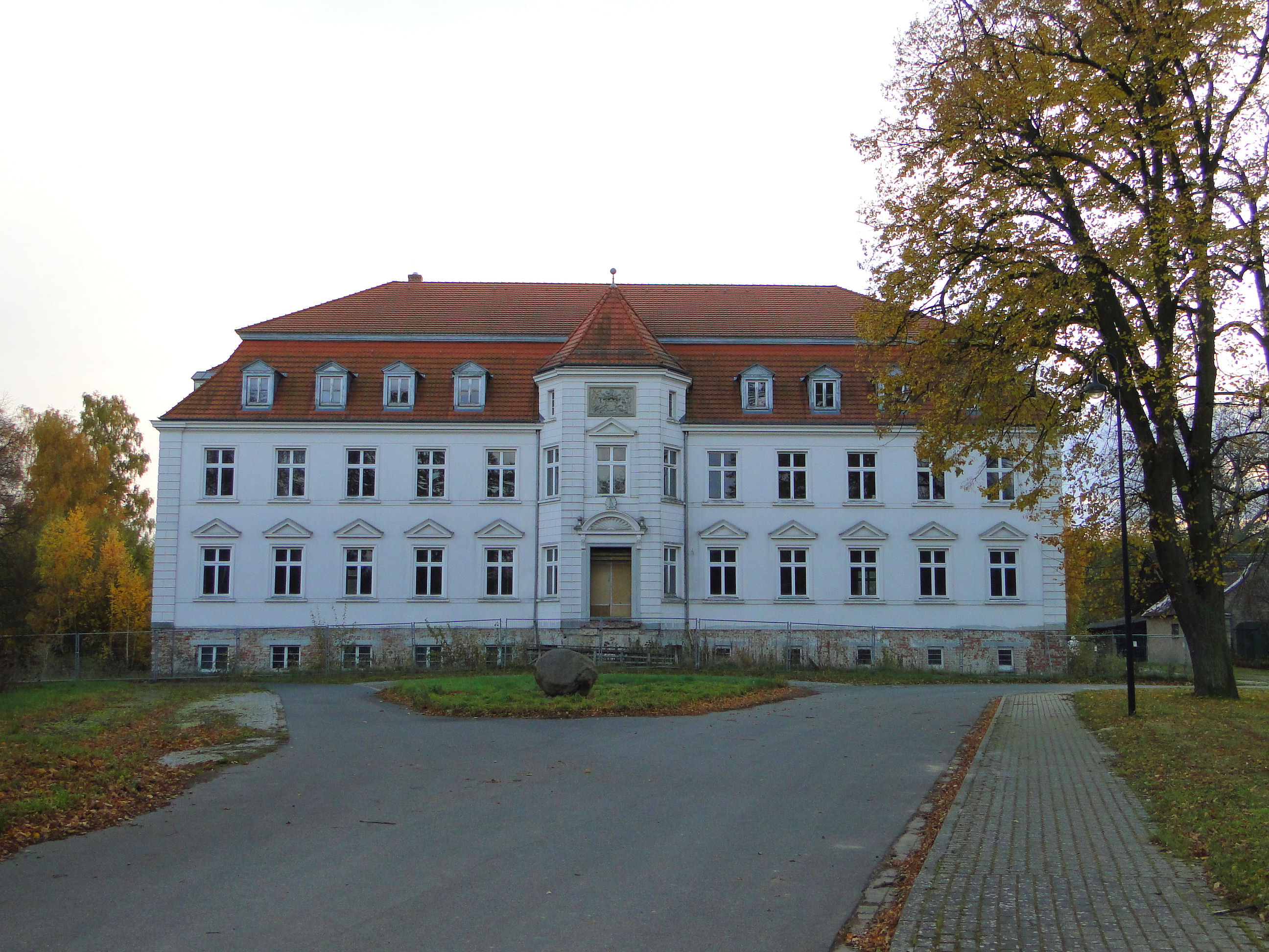 Manor house in Quadenschönfeld, district Mecklenburgische Seenplatte, Mecklenburg-Vorpommern, Germany